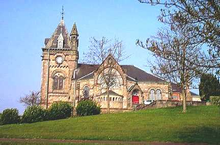 Pitlochry, Church of Scotland and Tryst.